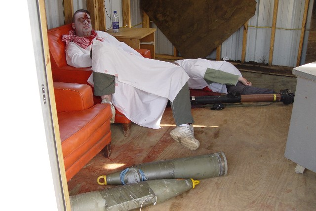 Picture showing a 'dead' OPFOR soldier wearing moulage for realistic effect.